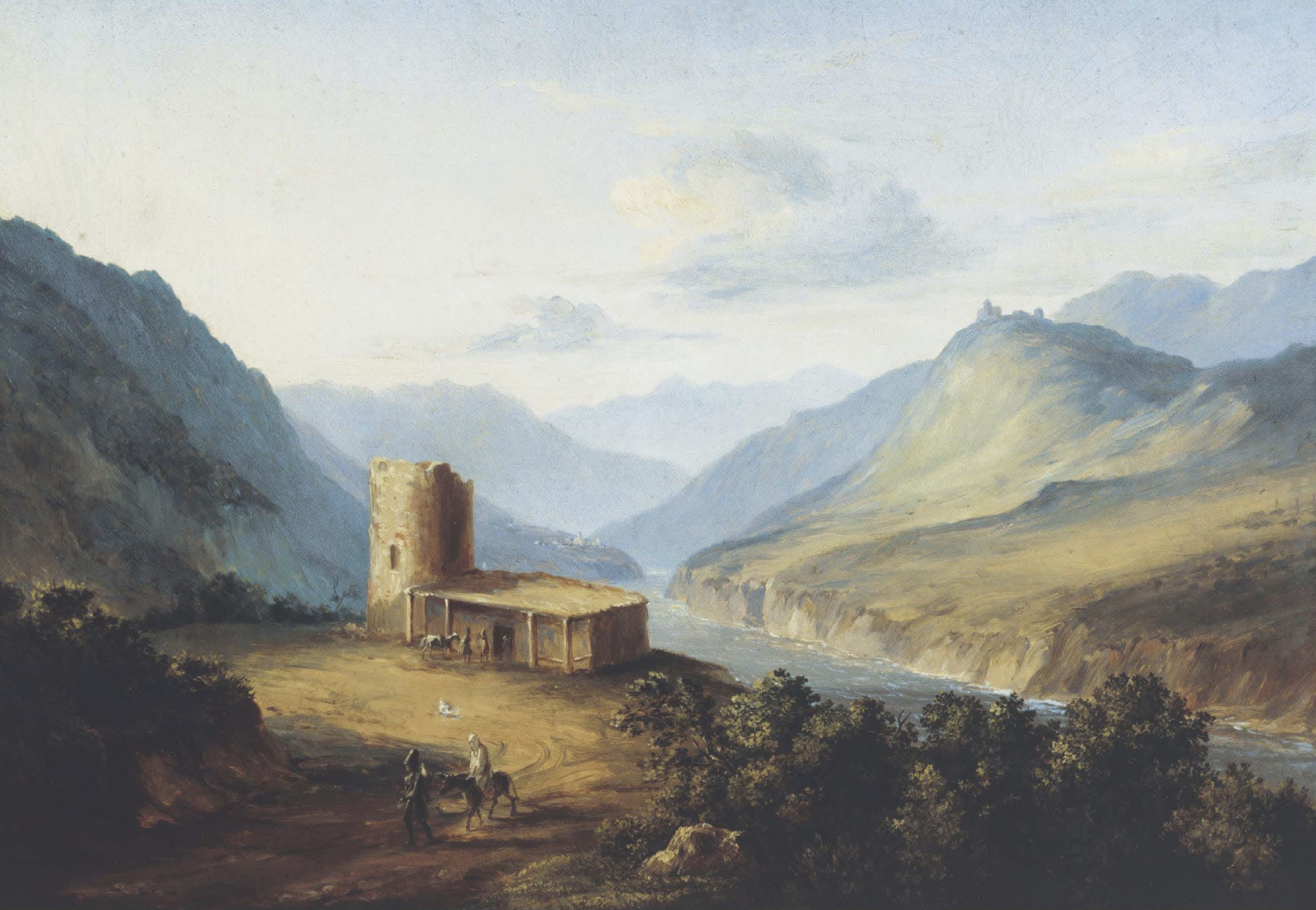 The Military Georgian Road near Mtsheta (Landscape with a Saklia - dwelling of Caucasian mountaineers), 1837